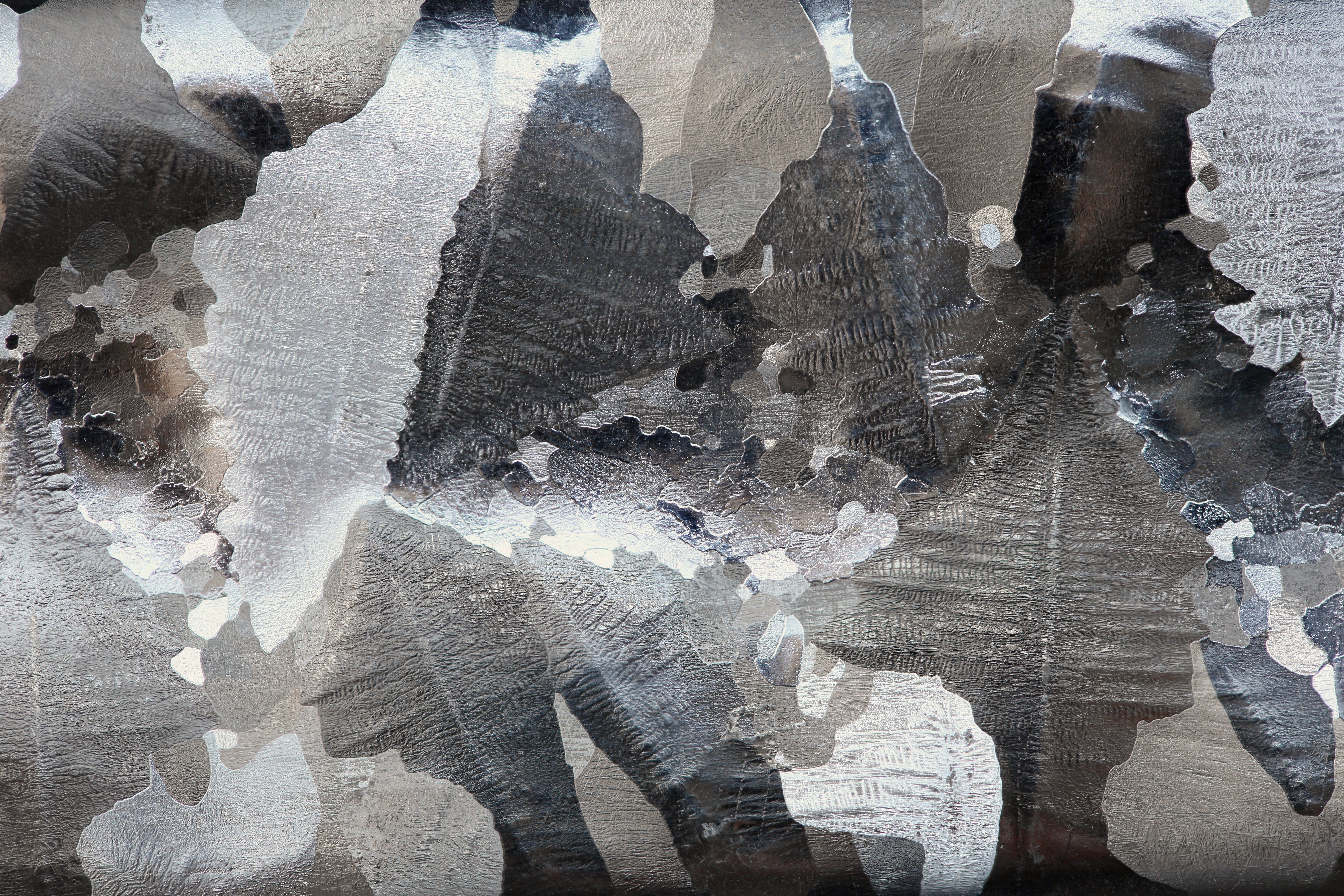 Bar of (Al) Aluminium crystal growth raw material, with visible dendrites on the macroetched surface, purity 99,9998 %, sector size about 55 × 37 mm (from the collection of Ethan Currens).